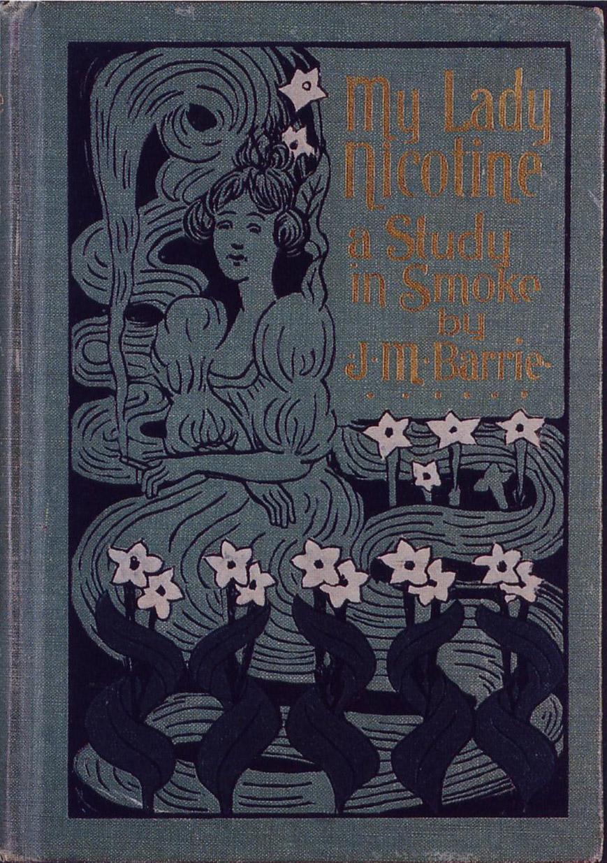 Cover of My Lady Nicotine: A Study in Smoke by J. M. Barrie; Boston, 1896, cloth.